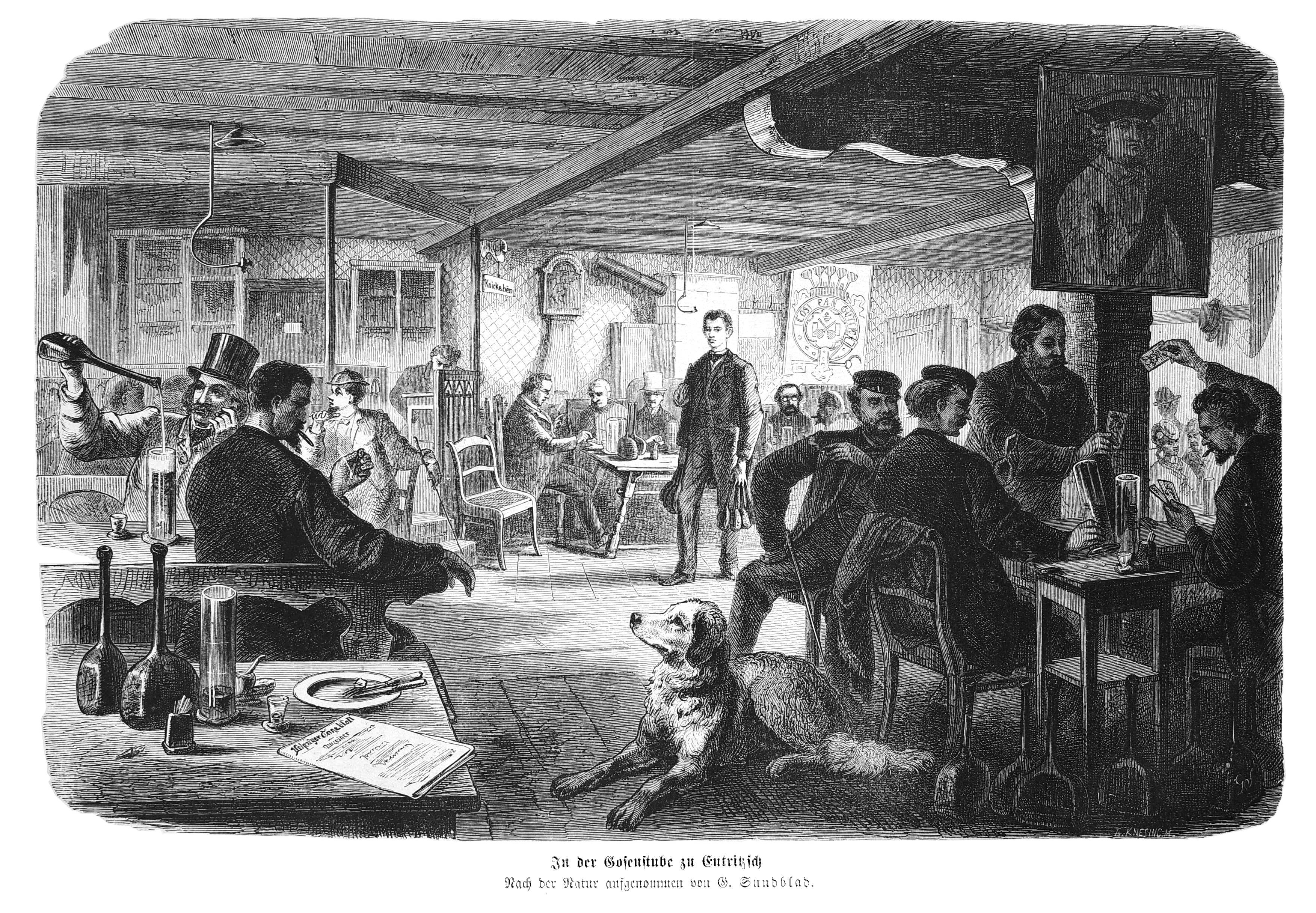 Image from page 97 of book Die Gartenlaube.